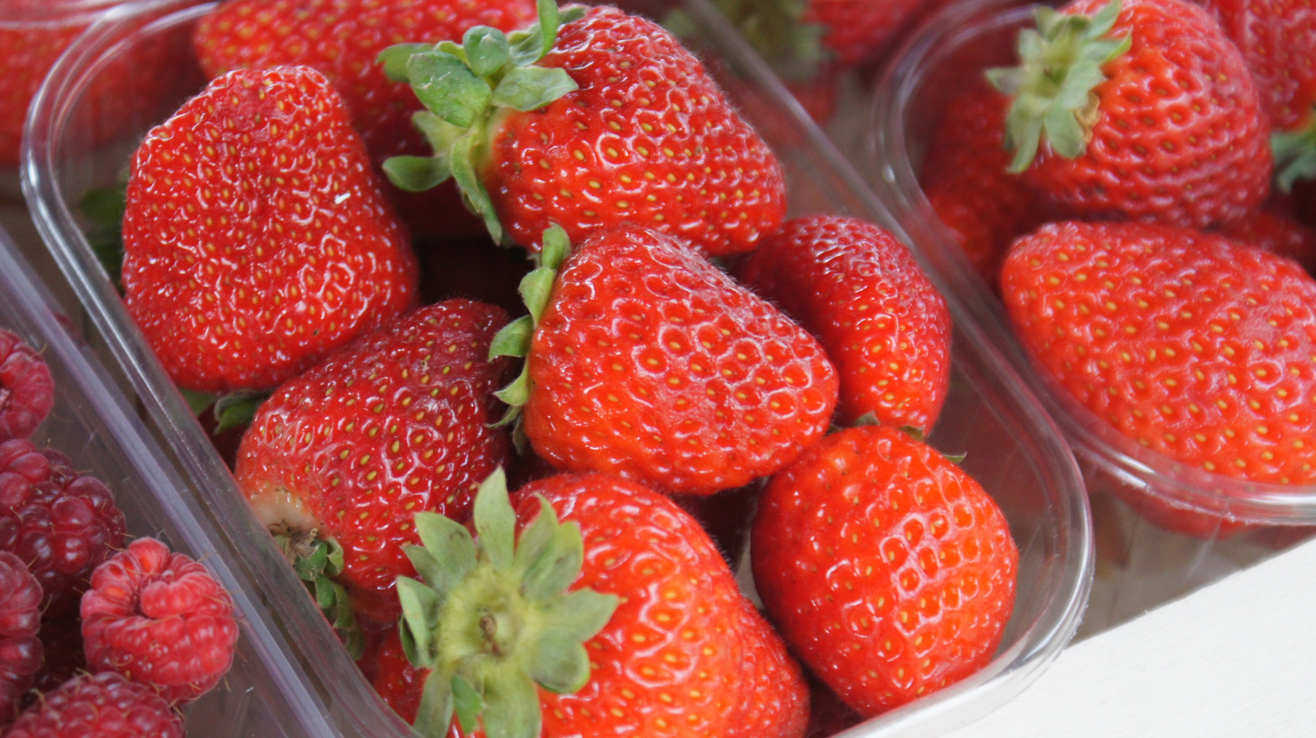 Close-up of some strawberries at Ljubljana Central Market in a plastic punnet